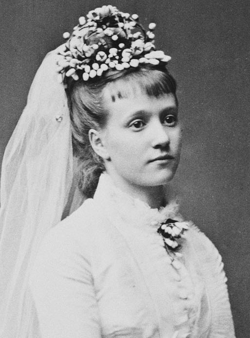 Adelgundes of Portugal, Countess of Bardi, later Duchess of Guimarães